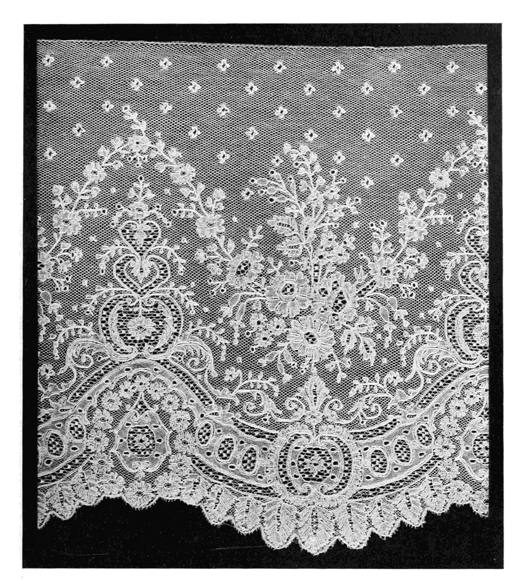 "Real Mechlin."